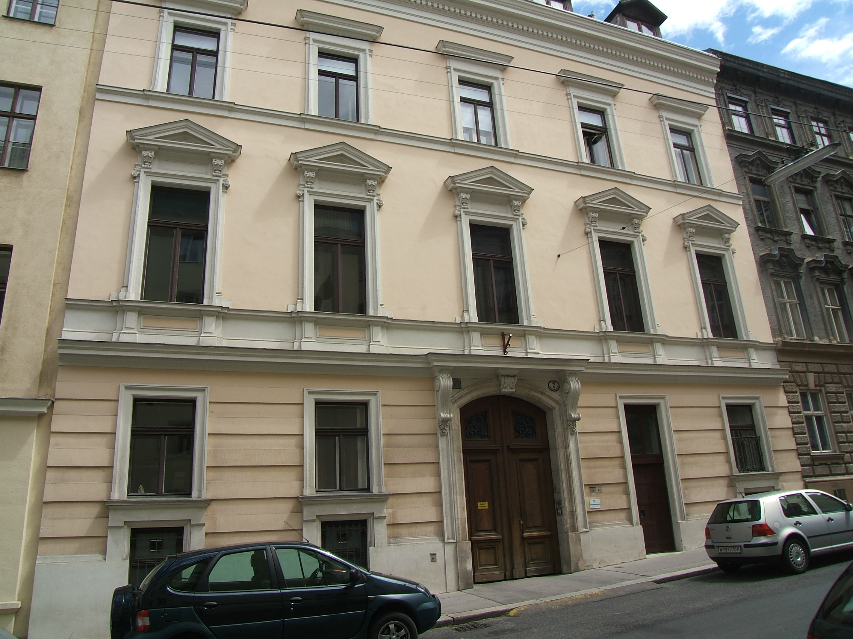 Palais Apponyi in Vienna, 4th district Johann Strauß Gasse 7